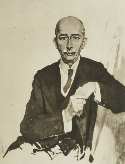 An Onlooker in France 1917-1919, by Sir William Orpen, K.B.E., R.A., Plate LXXXV. (c) 1921, published by Williams and Norgate, London.